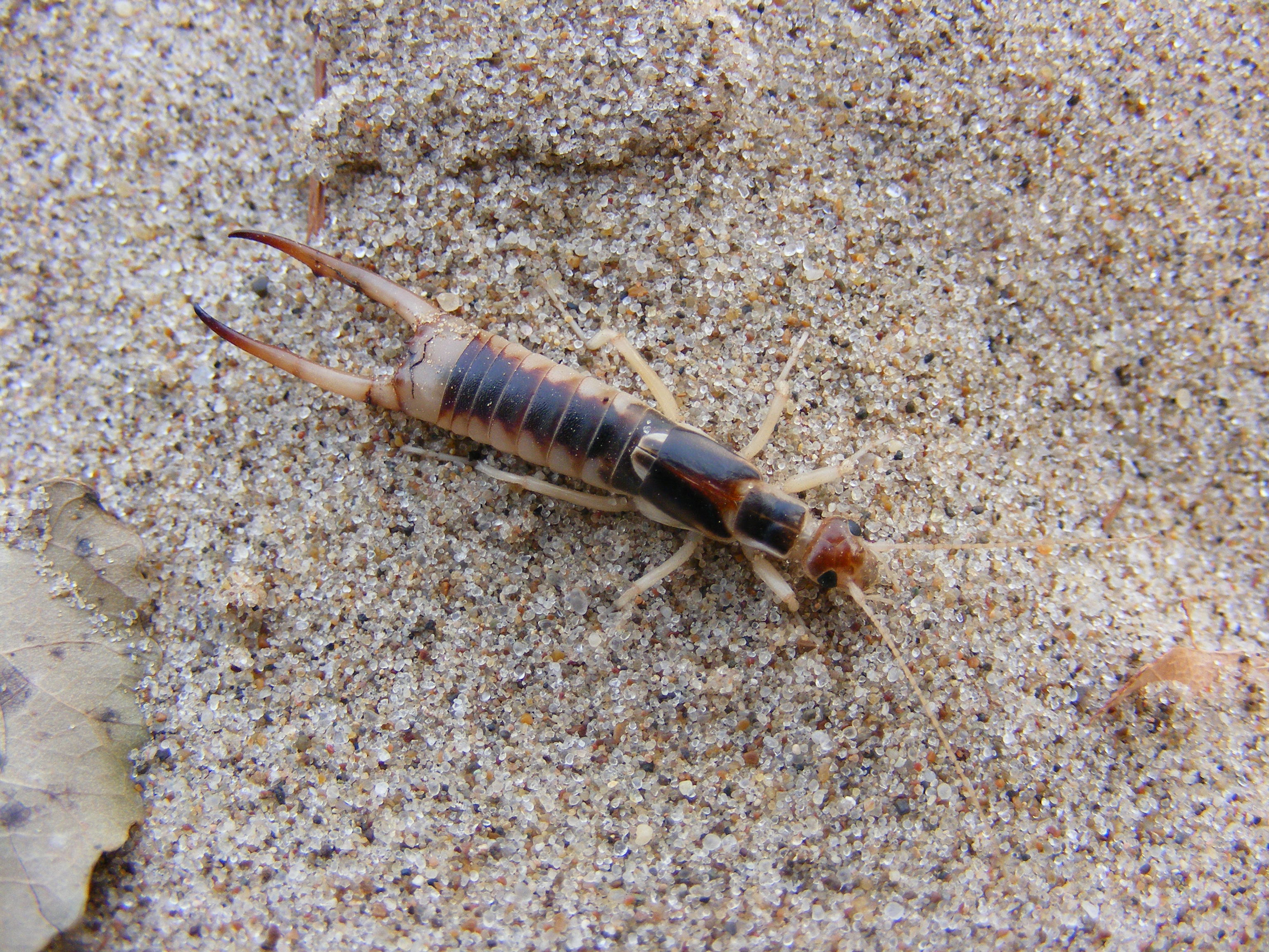 Labidura riparia